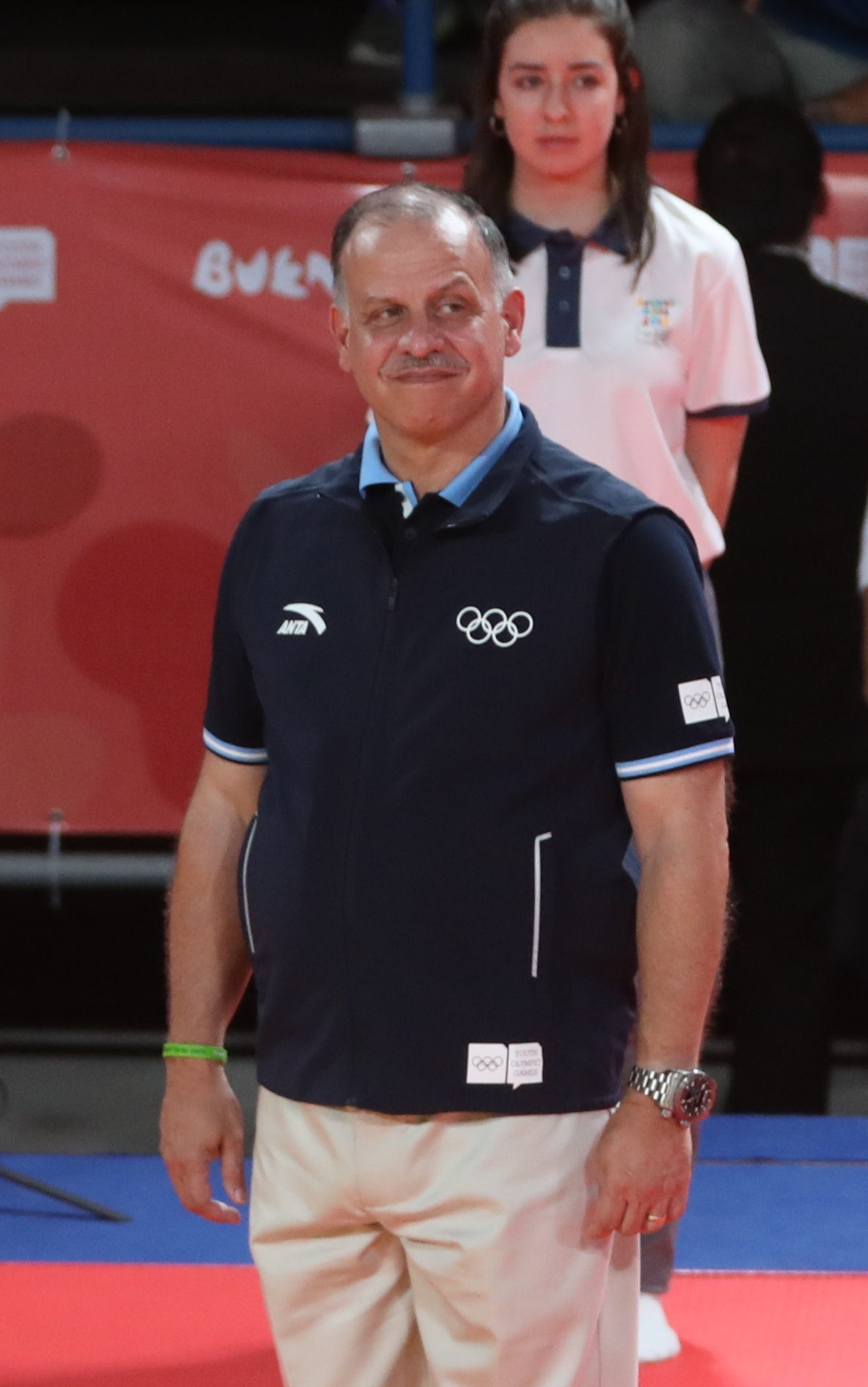 Victory ceremony of the judo girls' 44 kg at the 2018 Summer Youth Olympics in Buenos Aires on 7 October 2018.